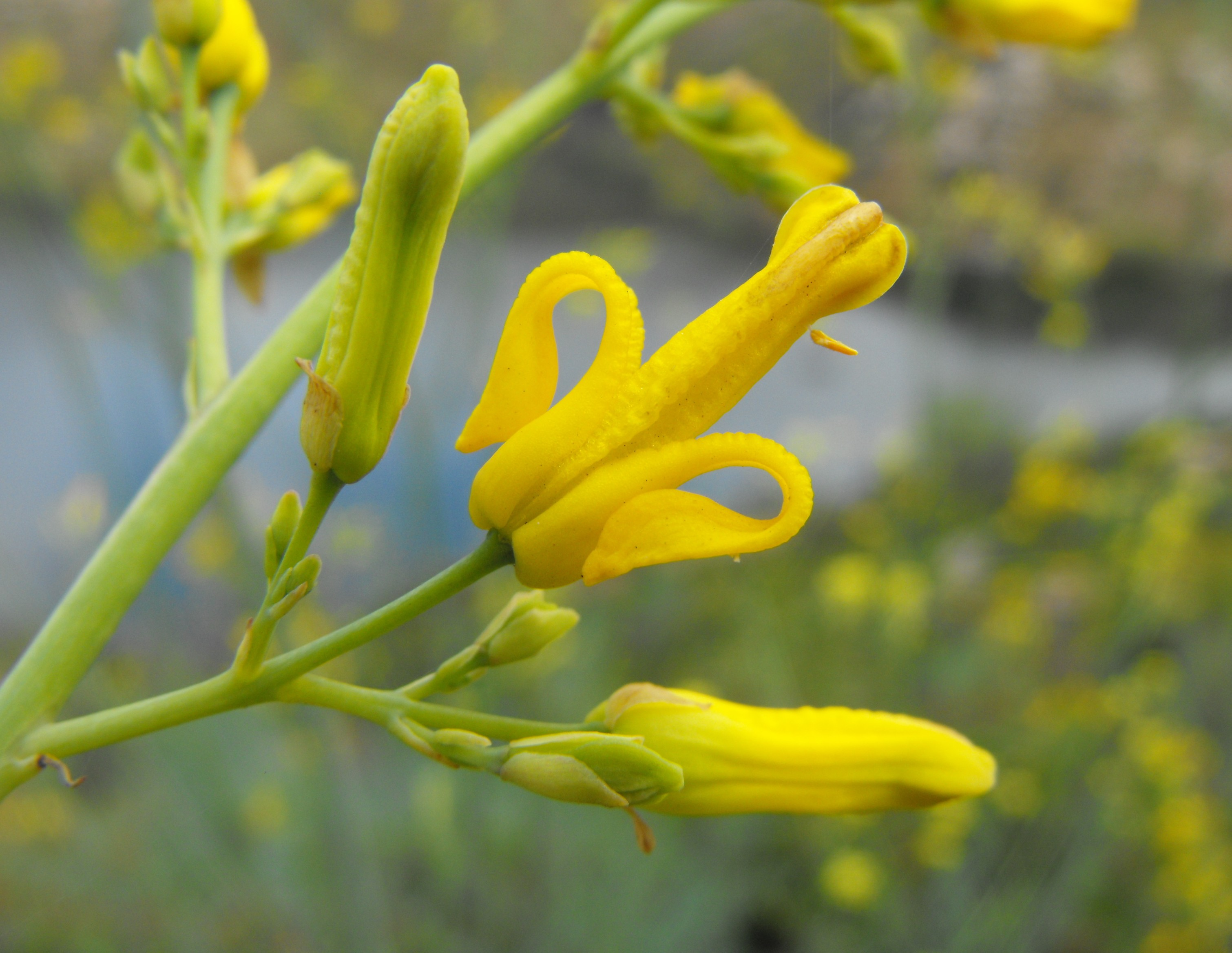 Ehrendorferia chrysantha (syn. Dicentra chrysantha) — Golden Eardrops. At Lake Poway, in San Diego County, NW Peninsular Ranges, Southern California.